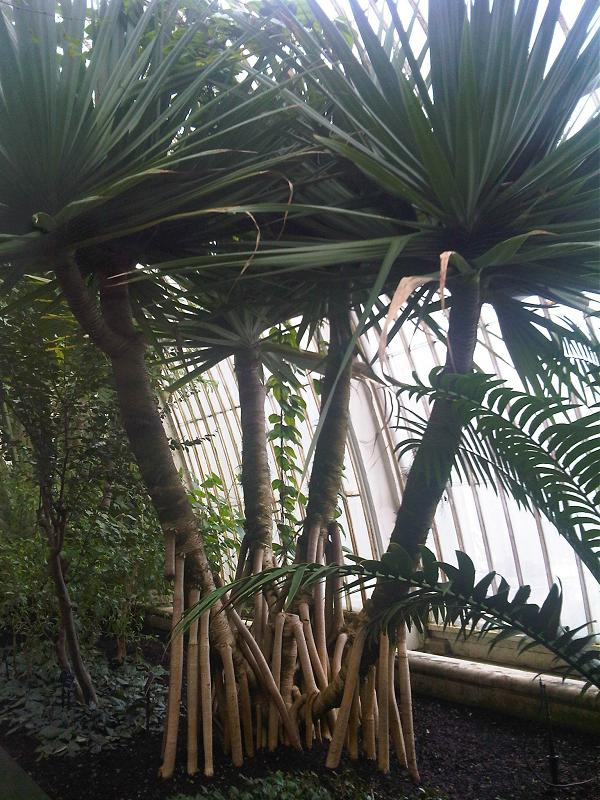 Pandanus vandermeeschii at Kew Gardens, England.